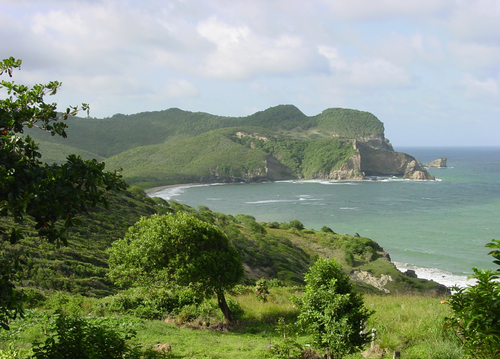 Fond d'Or Bay is a bay on the east side of the island of Saint Lucia in the Caribbean Sea.